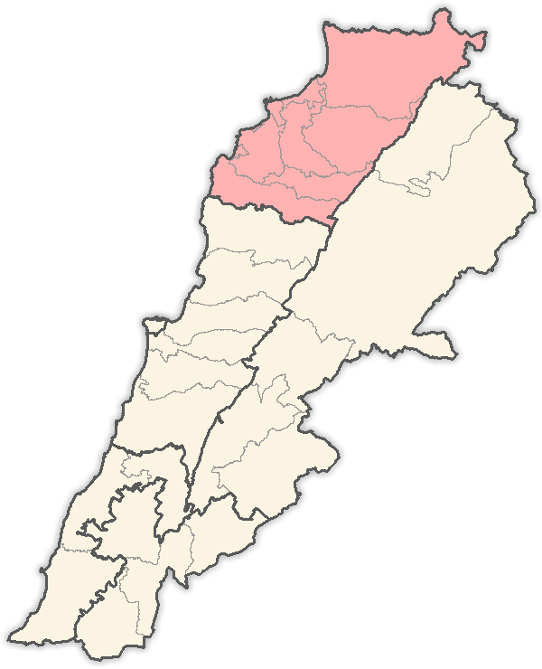 Map of districts in Lebanon, highlighting the North governorate